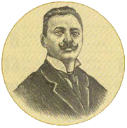 Laszlo Szekely